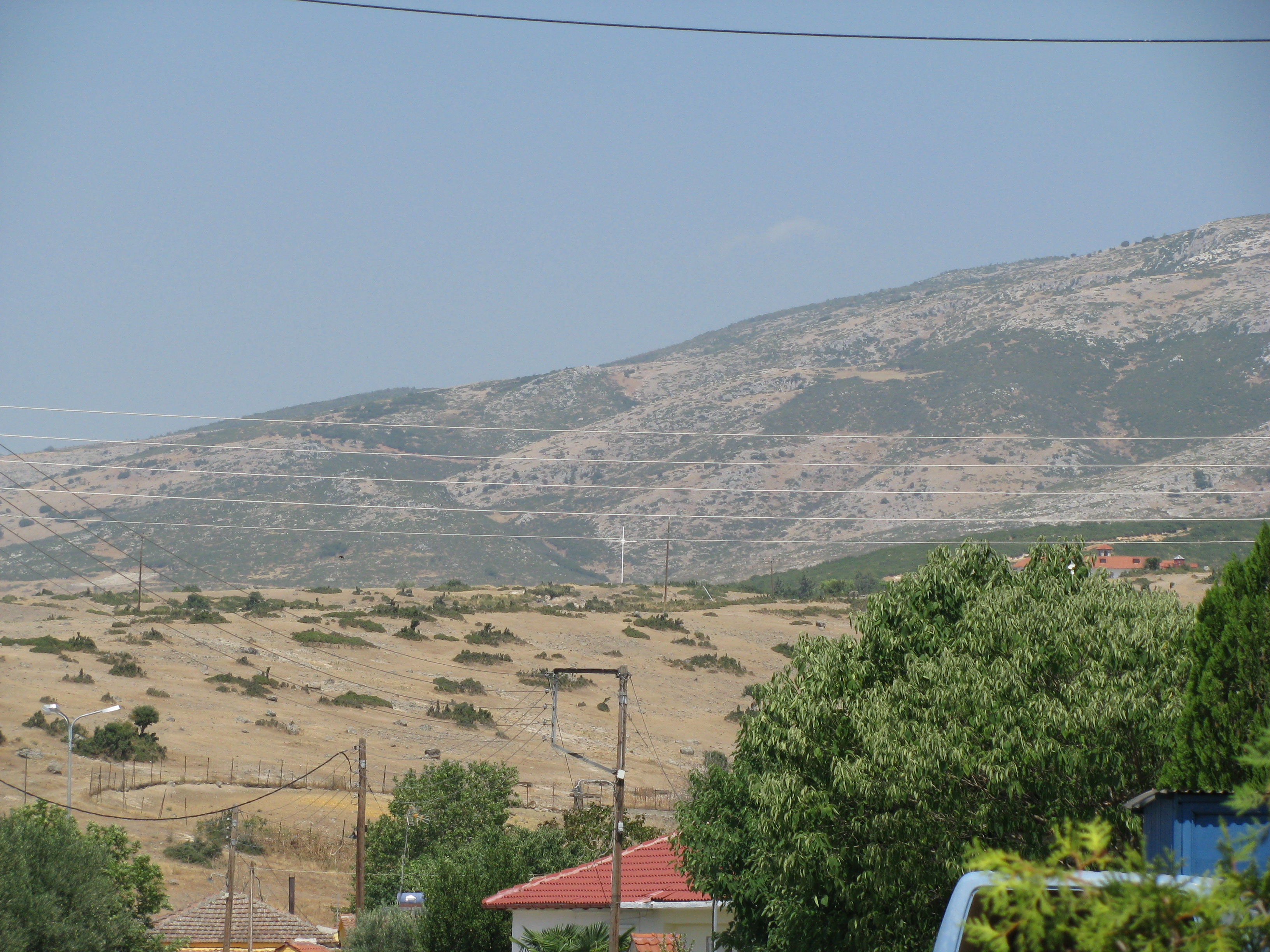 Village of Lakka in the Prefecture of Pella